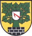 Coat of Arms of Tastungen